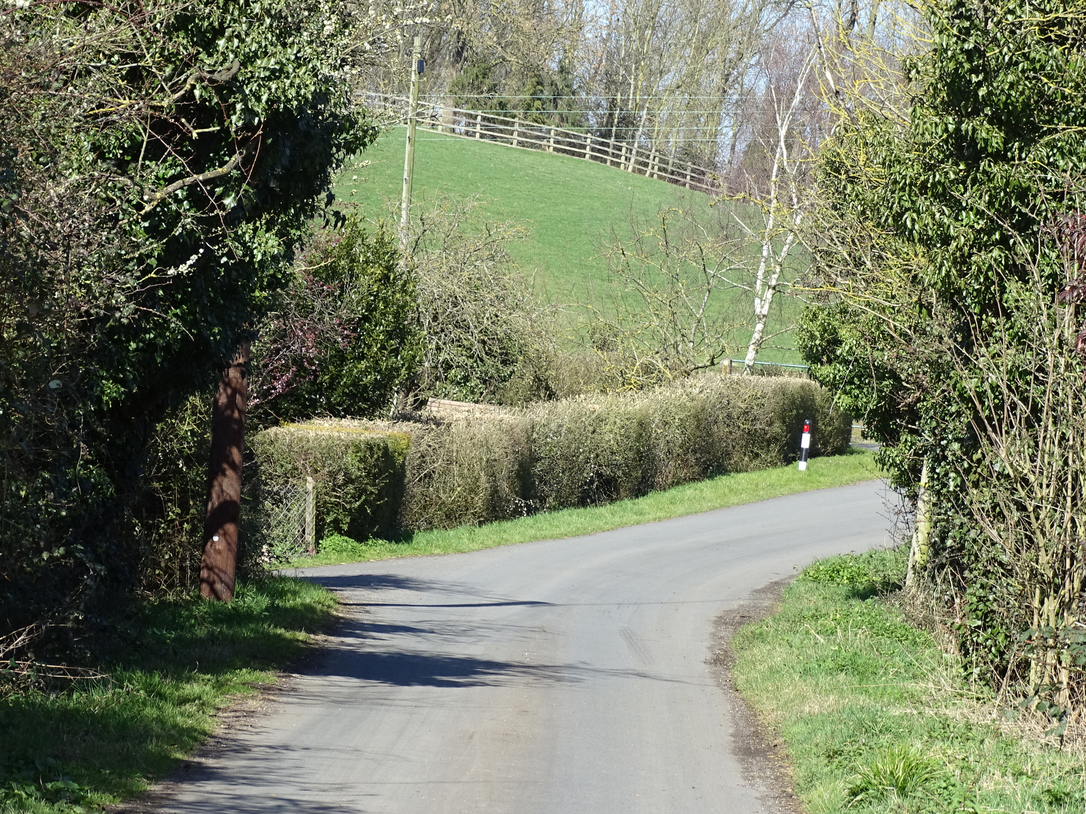 A scene in The Barrow